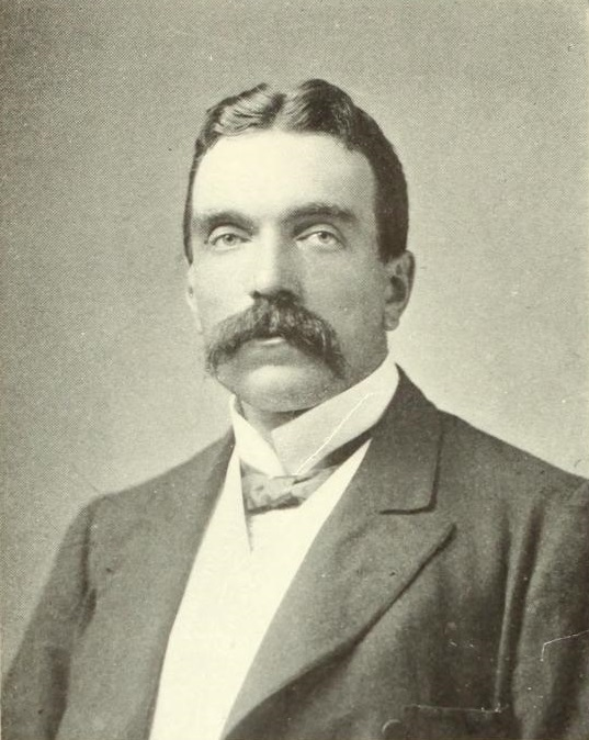 Portrait of D. LeRoy Dresser